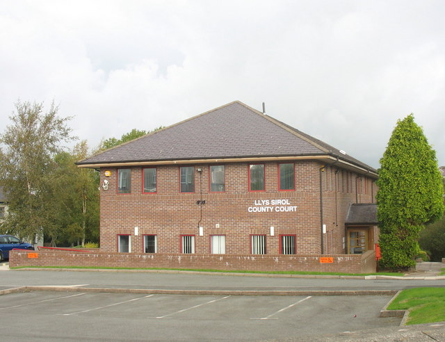 Llys Sirol / County Court, Llanberis Road, Caernarfon This new courthouse deals with such matters as adoption, divorce and bankruptcy